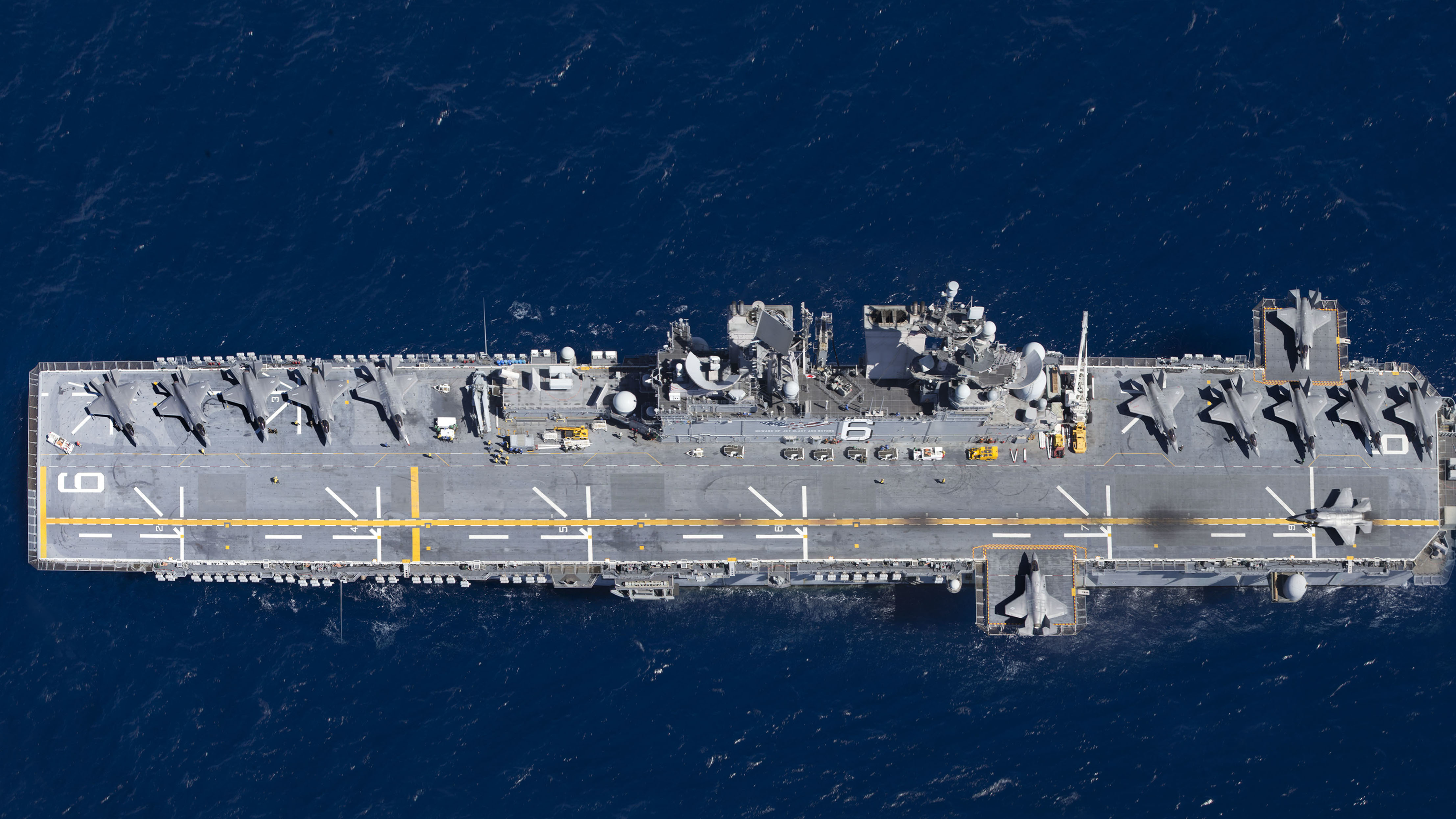 Thirteen U.S. Marine Corps F-35B Lightning II with Marine Fighter Attack Squadron (VMFA) 122, Marine Aircraft Group 13, 3rd Marine Aircraft Wing (MAW), are staged aboard the amphibious assault ship USS America (LHA 6) as part of routine training in the eastern Pacific, Oct. 8, 2019. Integrating 3rd MAW’s combat power and capabilities while conducting realistic training is essential to generate readiness and lethality in our units. (U.S. Marine Corps photo illustration by Lance Cpl. Juan Anaya)